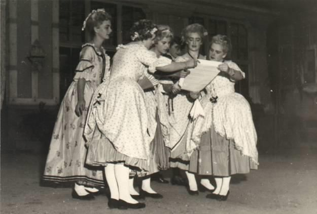 Reifensteiner Schule Laienspiel Stiftungsfest 1950 Weilbach